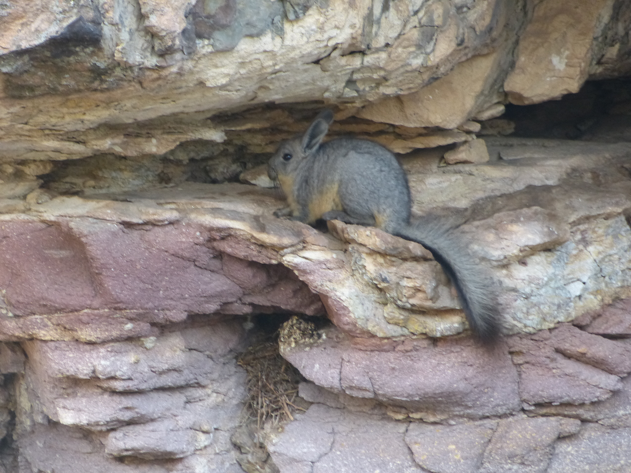 Lagidium viscacia in San Rafael Mendoza, Argentina